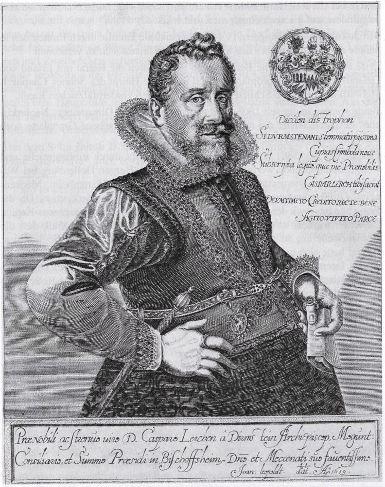 Caspar Lerch von Dirmstein (1575-1642), Kammerherr und Amtmann des Erzbischofs und Kurfürsten von Mainz